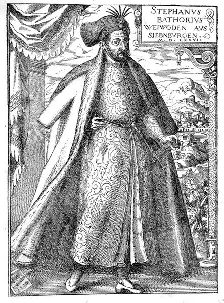 Stefan Bathory as prince of Transylvania